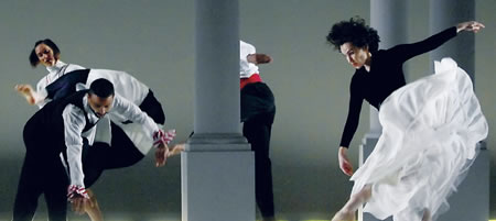 The Bill T. Jones/Arnie Zane Dance Company's performance of Another Evening: Serenade/The Proposition, a new piece by Jones on the legacy of Abraham Lincoln, was featured at the NEA-supported 75th anniversary of the American Dance Festival, which was attended by participants of the NEA Arts Journalism Institute for Dance.